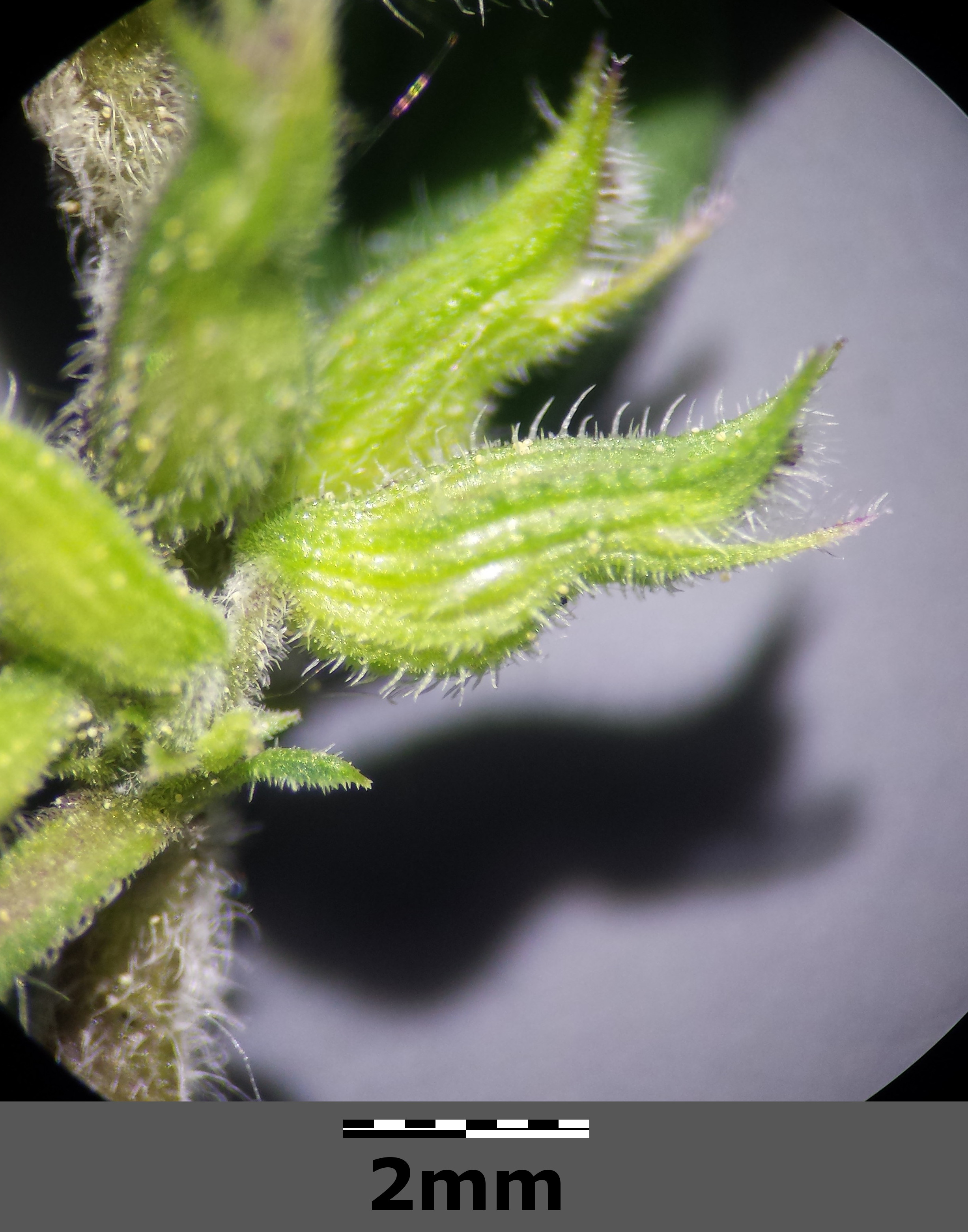 Calyx Taxonym: Clinopodium acinos ss Fischer et al. EfÖLS 2008 ISBN 978-3-85474-187-9 Location: Neue Donau, Vienna-Floridsdorf - ca. 160 m a.s.l. Habitat: stone slope